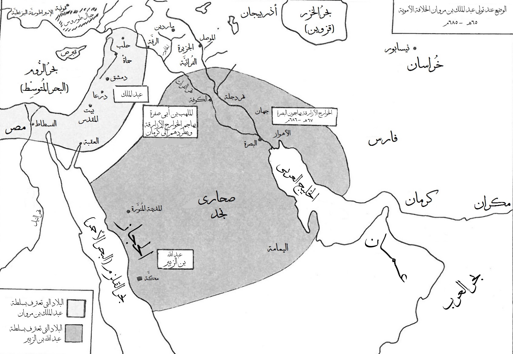 Map showing the places which acknowledged the rule of Abd al-Malik ibn Marwan and those that acknowledged the rule of Abd Allah al-Zubayr.